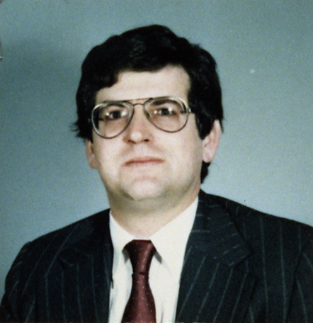 Portraits of Assistants to The Presidents Ed Meese James Baker Michael Deaver William Clark James Brady Richard Darman Ken Duberstein Fred Fielding Craig Fuller David Gergen John Herrington Ed Hickey James Jenkins Michael Mcmanus John Rogers Edward Rollins Larry Speakes John Svahn Lee Verstandig Faith Whittlesey, 9/19/1983